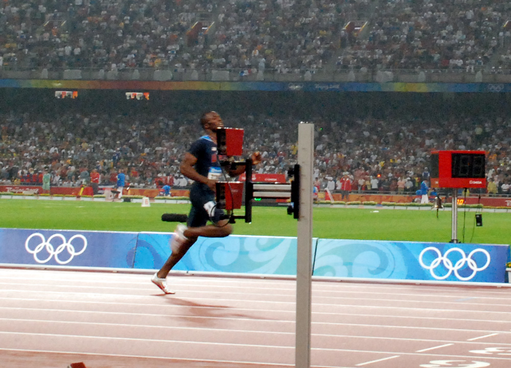 LaShawn Merritt finishing the 400m almost 1 second before Jeremy Wariner (out of the picture), august 21st 2008 at the Bird's nest, Beijing